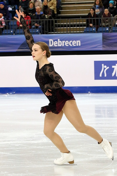 Leonora at the Junior World Championships 2016 - Short program